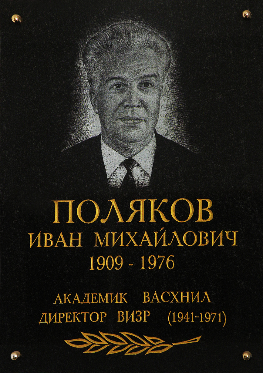 Polyakov Ivan Mikhailovich portrait